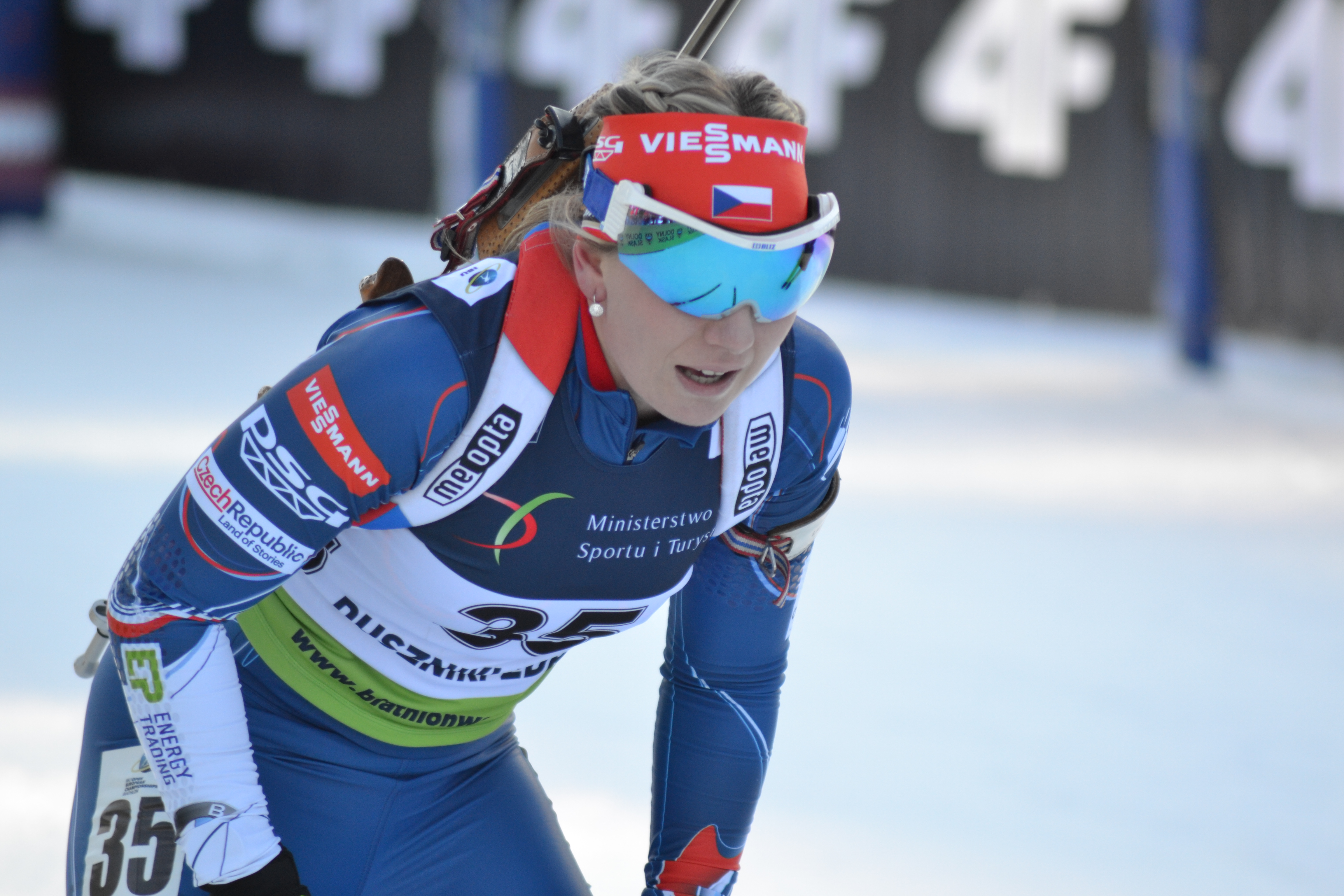 Open European Championships Biathlon 2017, Sprint Women's race, held on January 27th.